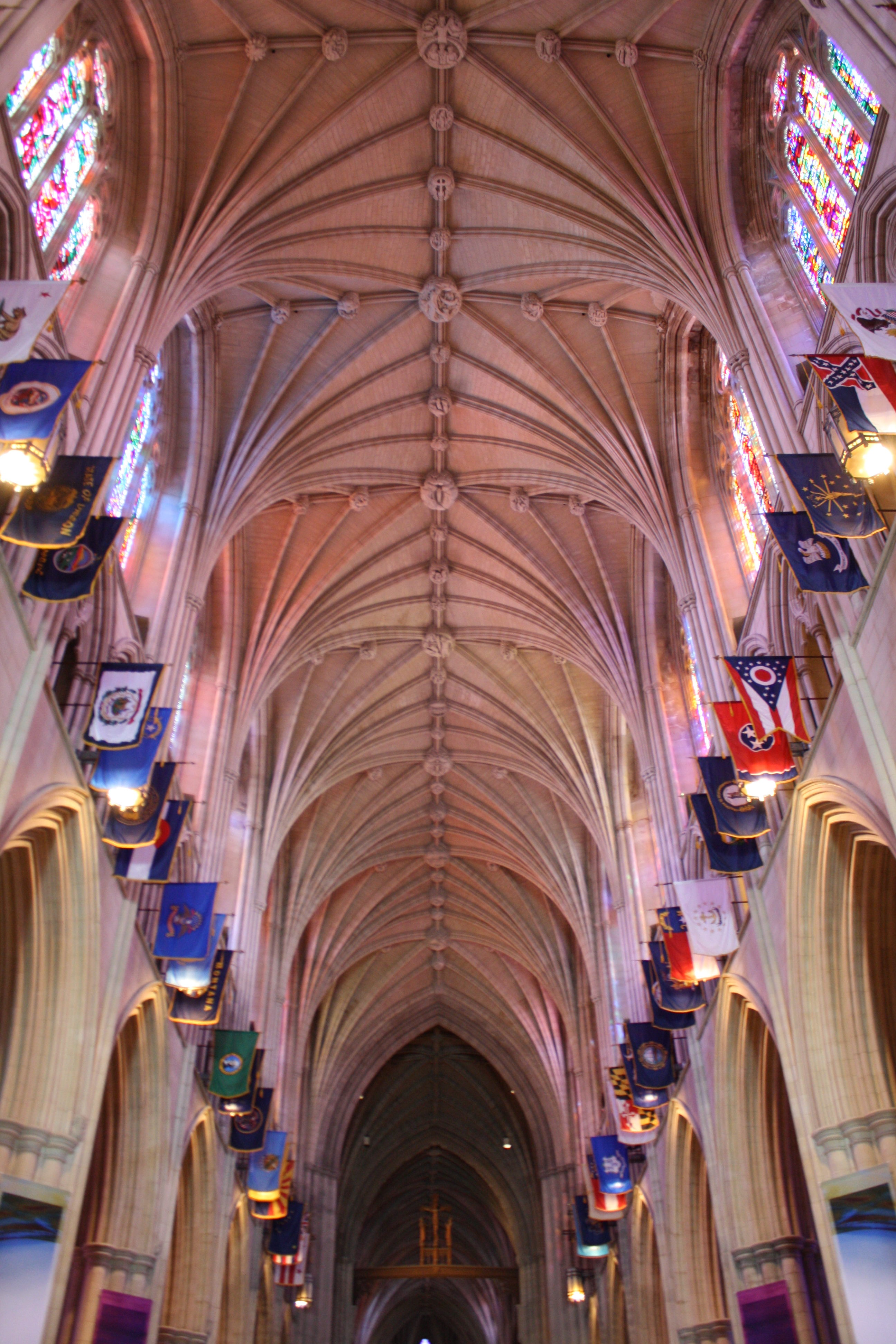 Ceiling of Washington National Cathedral.